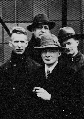 Scientists at a tour of the Radio Corporation of America (RCA) Brunswick New Jersey wireless station, given by David Sarnoff to Albert Einstein on April 23, 1921.